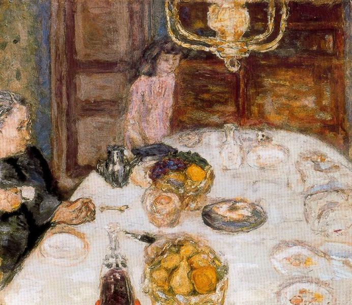 1899 painting by French artist Pierre Bonnard